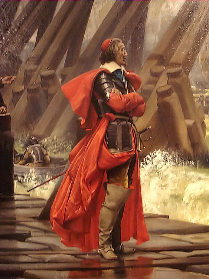 Richelieu_La_Rochelle_1881_Henri_Motte_1847_1922